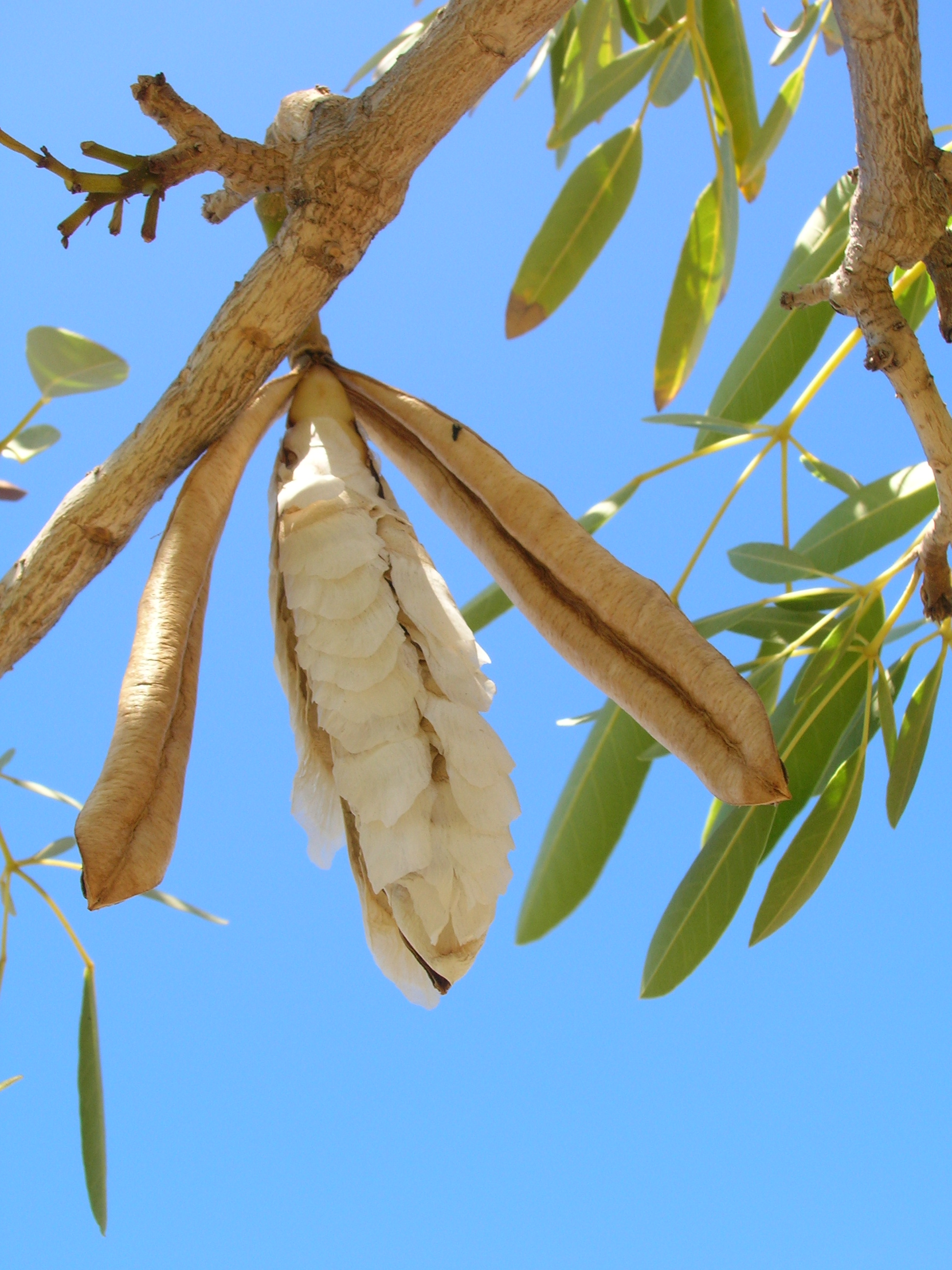 Tabebuia aurea (pods). Location: Maui, Kahului Community Center